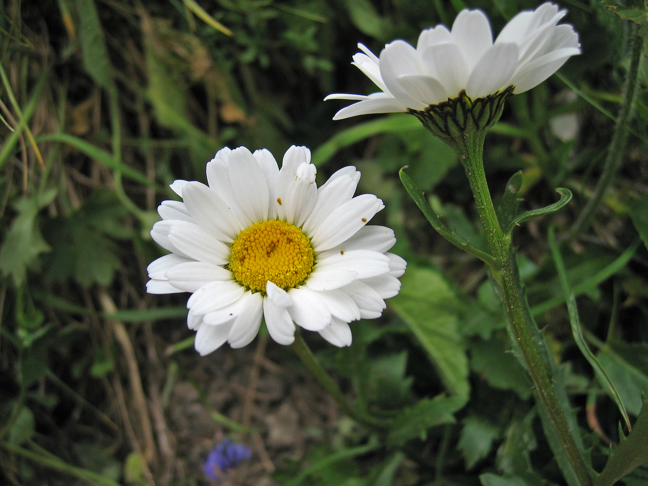 Leucanthemum atratum, Wurzeralm, Upper Austria, Austria